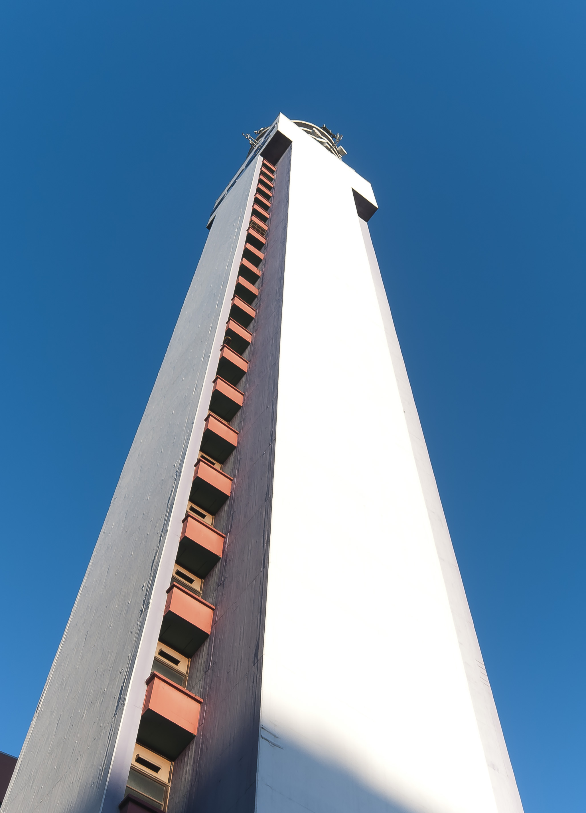 The BT Tower in Birmingham, UK